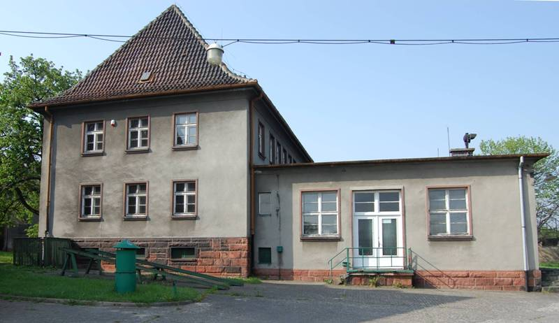 The Gliwice Radiostation